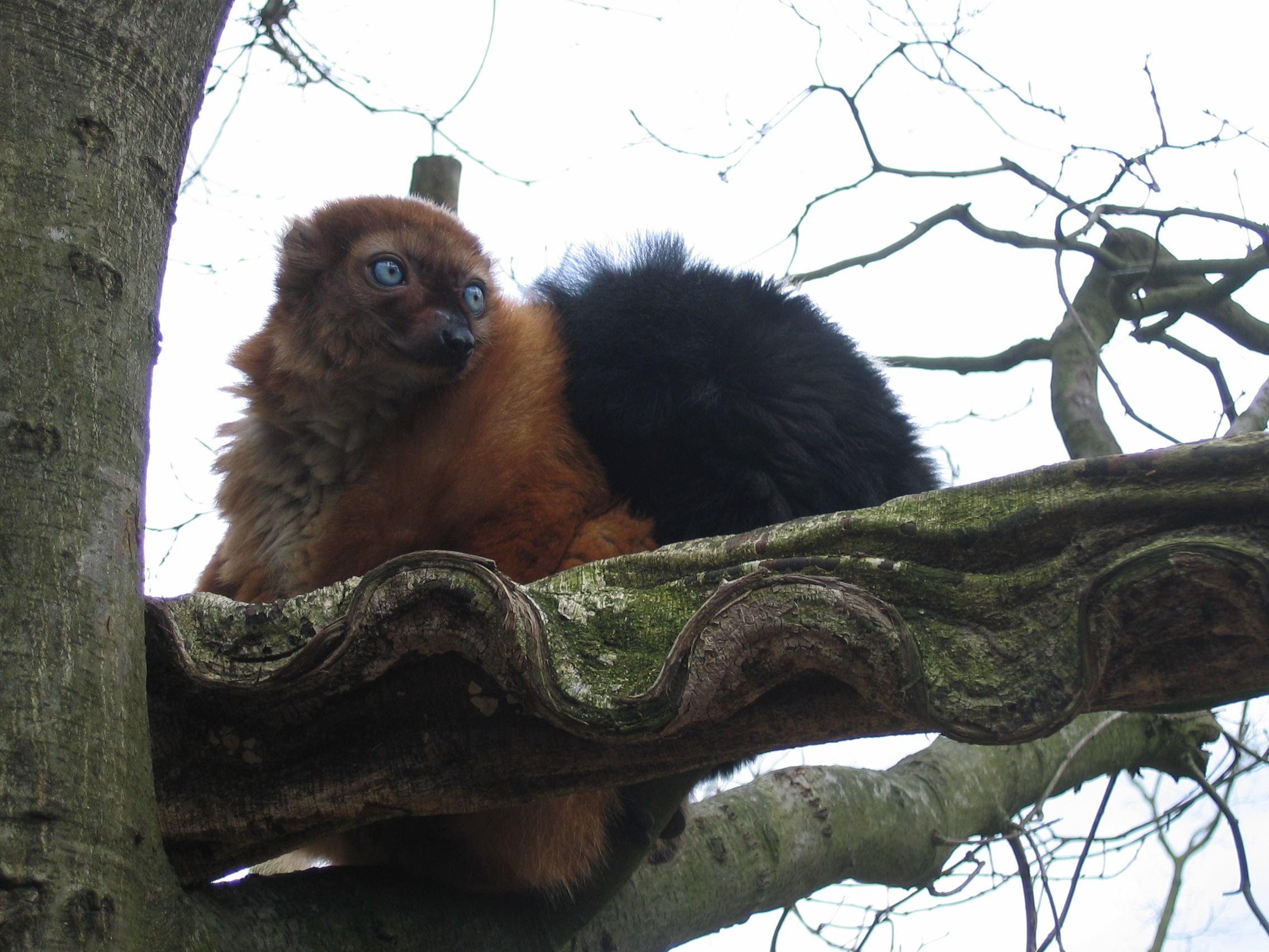 A Blue-eyed Black Lemur (Eulemur macaco flavifrons).